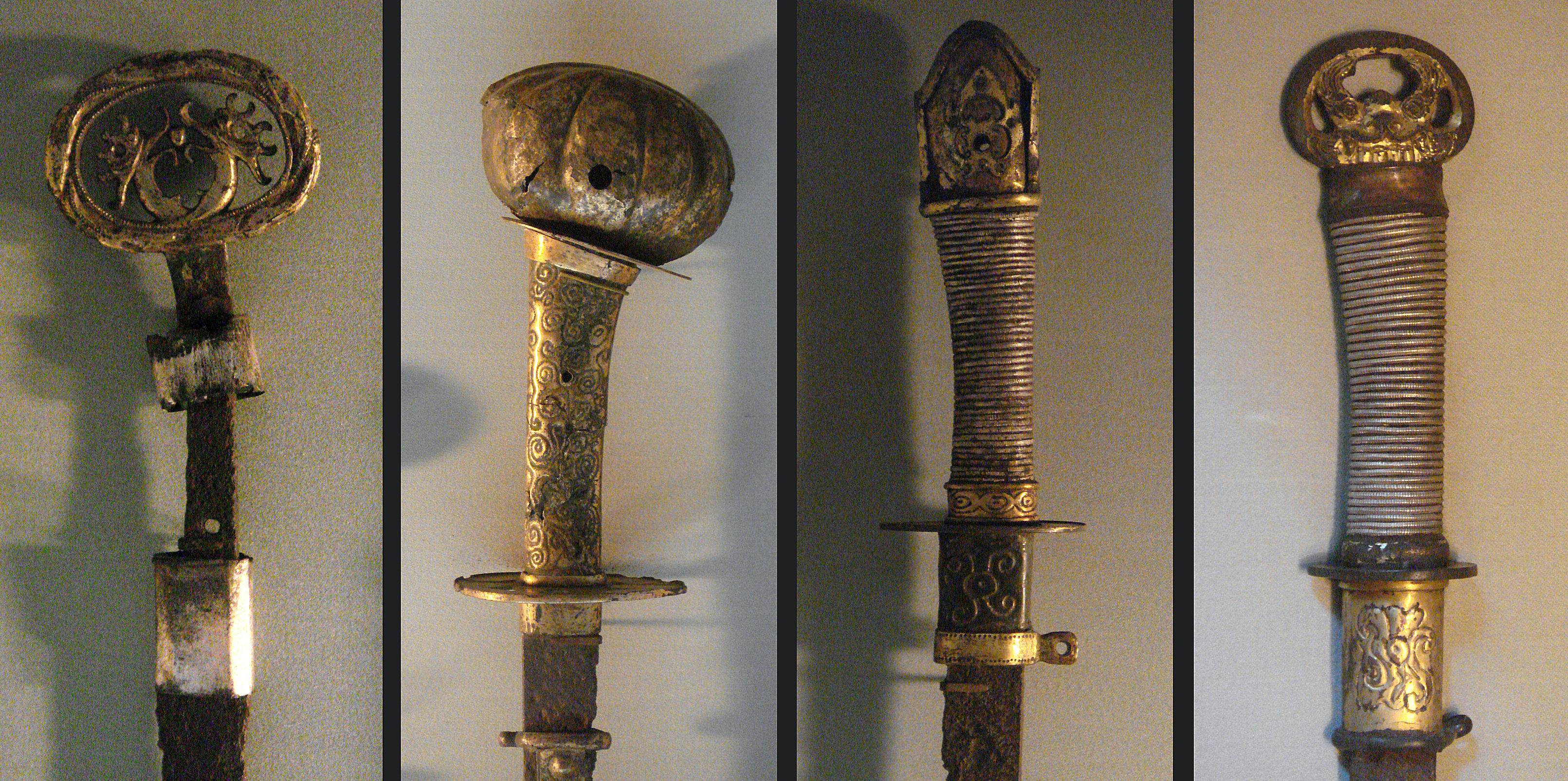 Hilts_of_Japanese_straight_sword_Kofun_period_circa_600